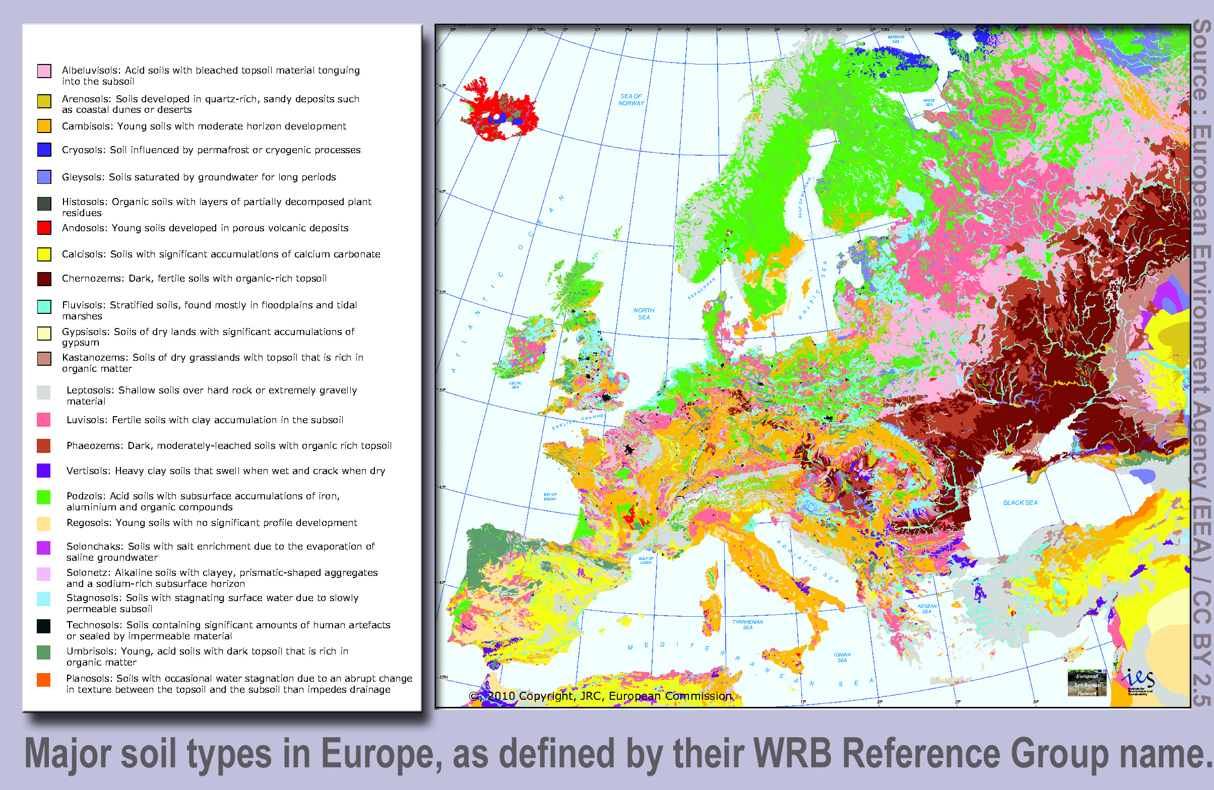 The map shows the major soil types as defined by their WRB Reference Group name. (for Albania, Algeria, Austria, Belgium, Bosnia and Herzegovina, Bulgaria, Belarus, Croatia, Cyprus, Czech Republic, Denmark, Germany, Estonia, Finland, France, Georgia, reece, Hungary, Iceland, Ireland, Italy, Latvia, Lithuania, Luxembourg, Macedonia, Malta, Republic of Moldova, Montenegro, Morocco, The Netherlands, Norway, Poland, Portugal, Romania, Serbia, Spain Slovenia, Slovakia, Sweden, Switzerland, Syria, Tunisia, Turkey, Ukraine, United Kingdom) ; 07 Dec 2010; Source : EEA, European Soil Database 2006 ; CC-by-2.5, retrieved 2011-10-22.